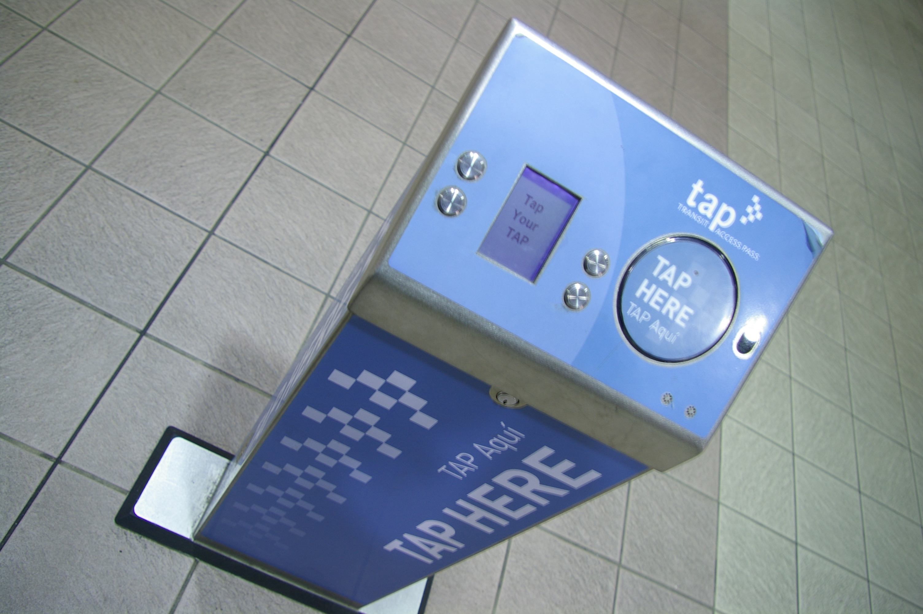 Photo of a TAP machine at a Los Angeles metro station